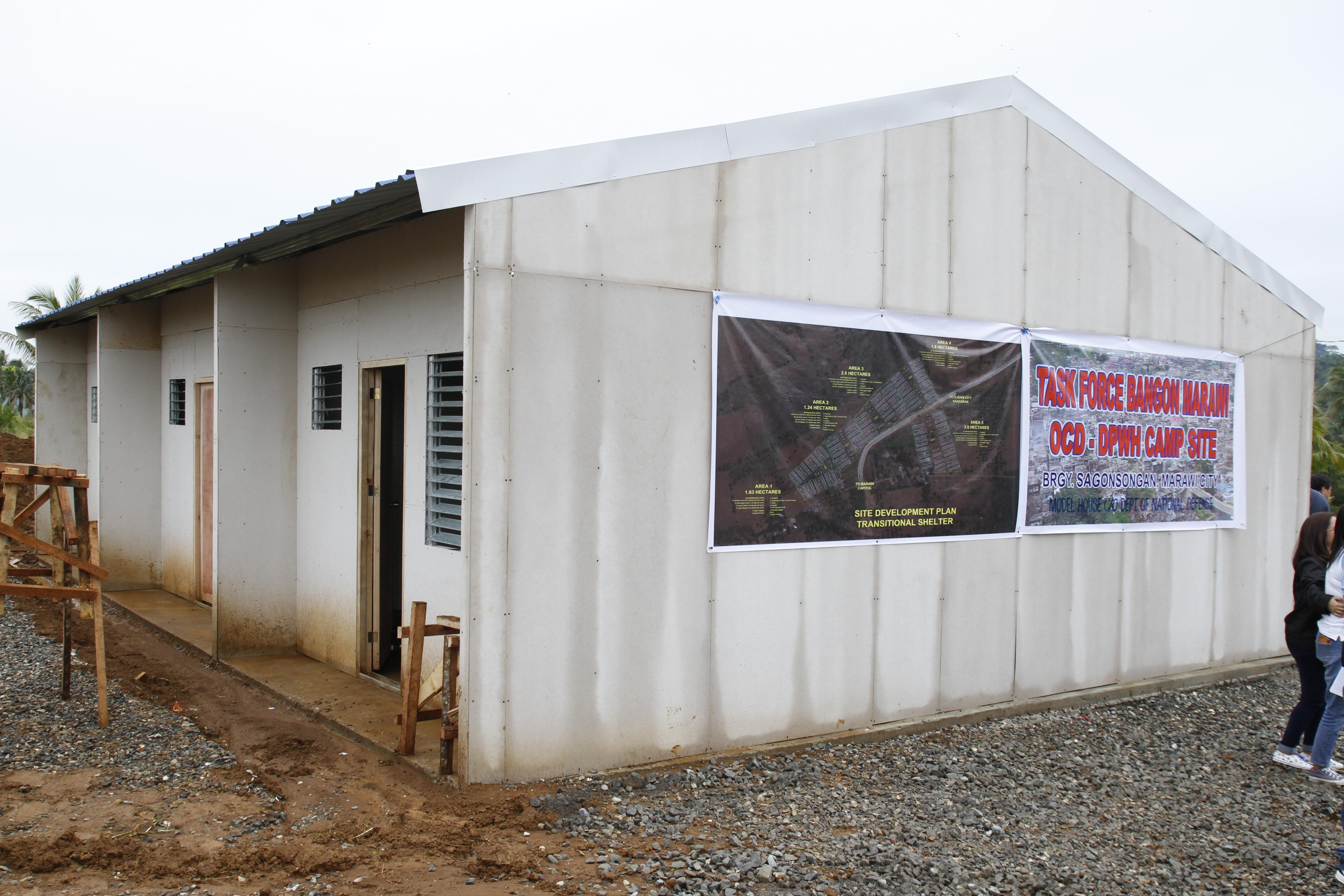 Task Force ‘Bangon Marawi’ takes the first leap in addressing the need to decongest evacuation centers by starting to build transitional shelters for families affected by the Marawi clash. Located in Barangay Sagonsongan, Marawi City, the site for transitional shelters with an area of 9.27 hectares is designed to fit the needs and sensitive to the culture of the Maranao Internally Displaced Persons. TF Bangon Marawi is created to facilitate the rehabilitation and recovery of Marawi City.